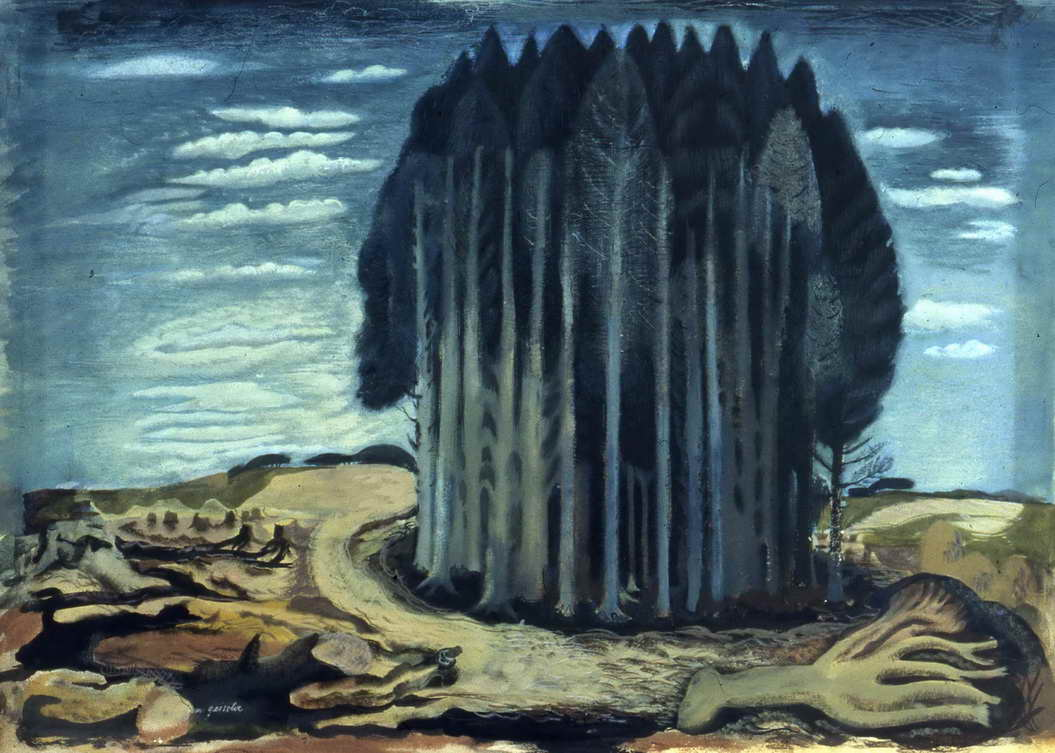 Scene of a stand of trees near Carrbridge, Scotland, following a violent storm. In the foreground lie half cut tree trunks and branches left unfinished by foresters